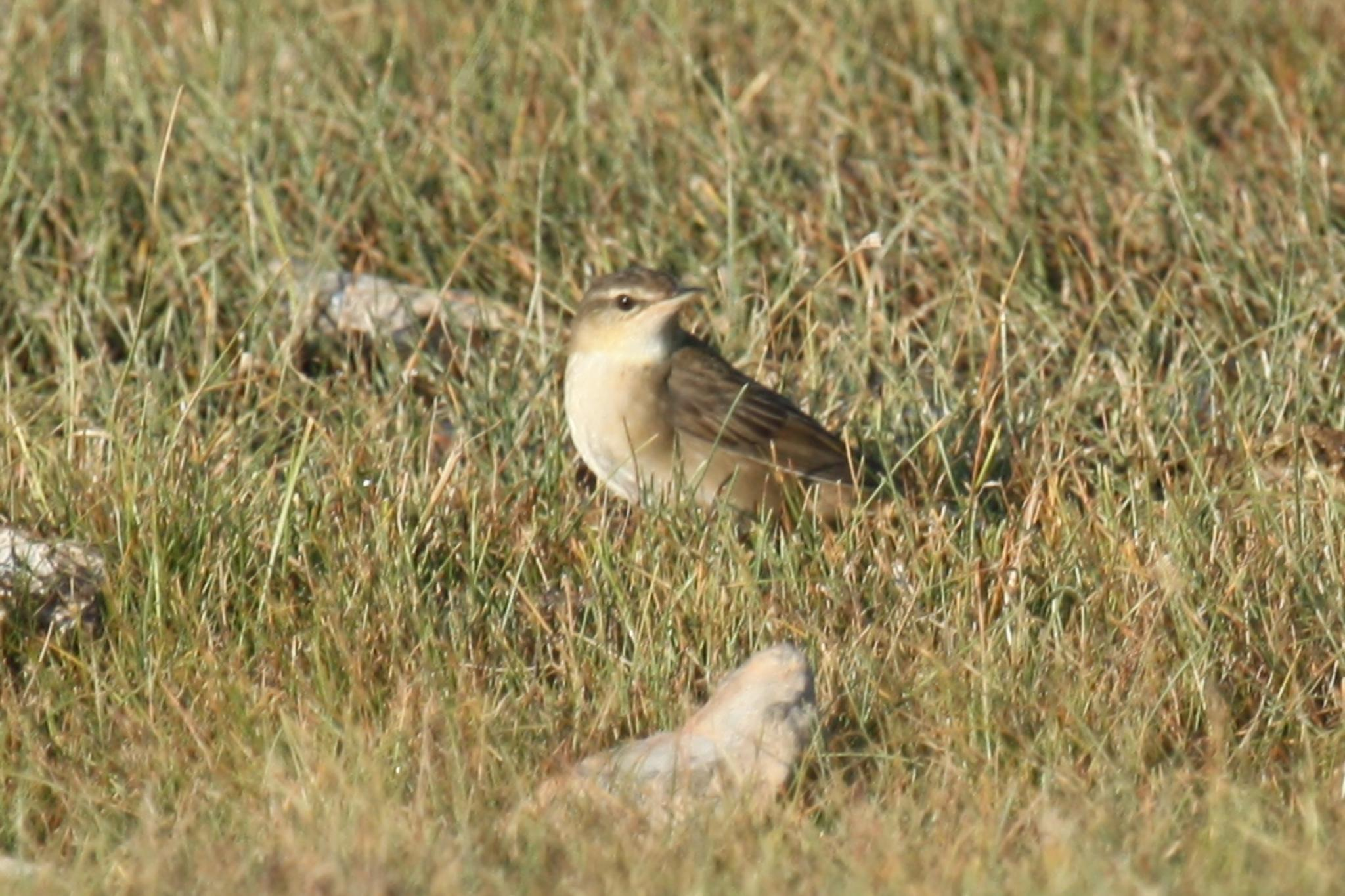 Locustella certhiola aka Pallas's Warbler (just to confuse Brit birders) aka PG Tips (just to confuse non-Brit birders)